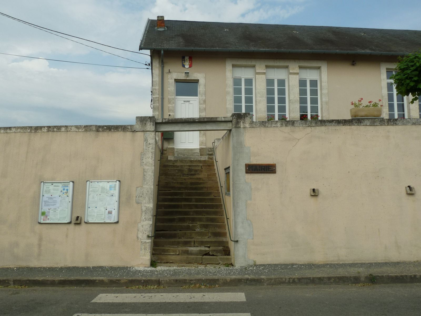 town hall of Ambernac, Charente, SW France